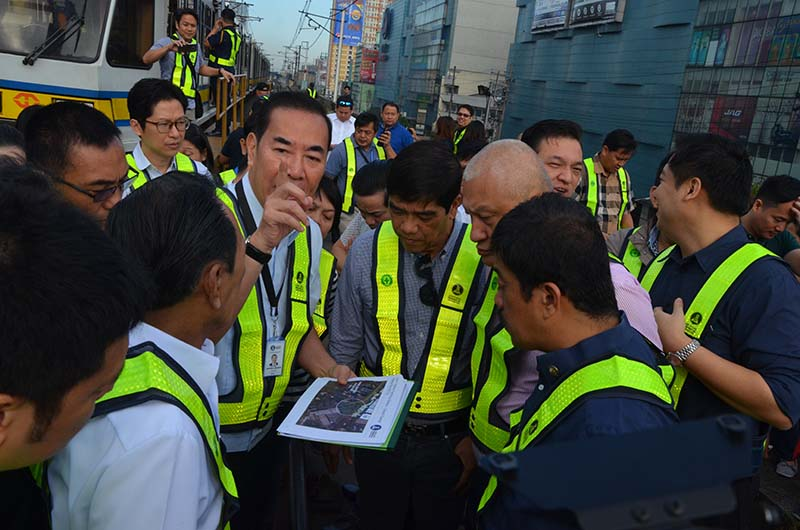 Inspection at the site of the yet to be built MRT-LRT common station by MMDA officials.